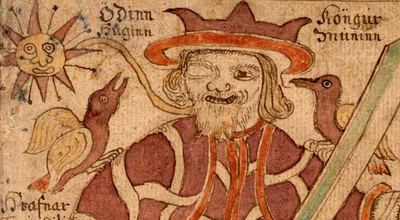 The two ravens Hugin and Munin on Odin's shoulders. Cut from Image:Processed SAM odinn.jpg